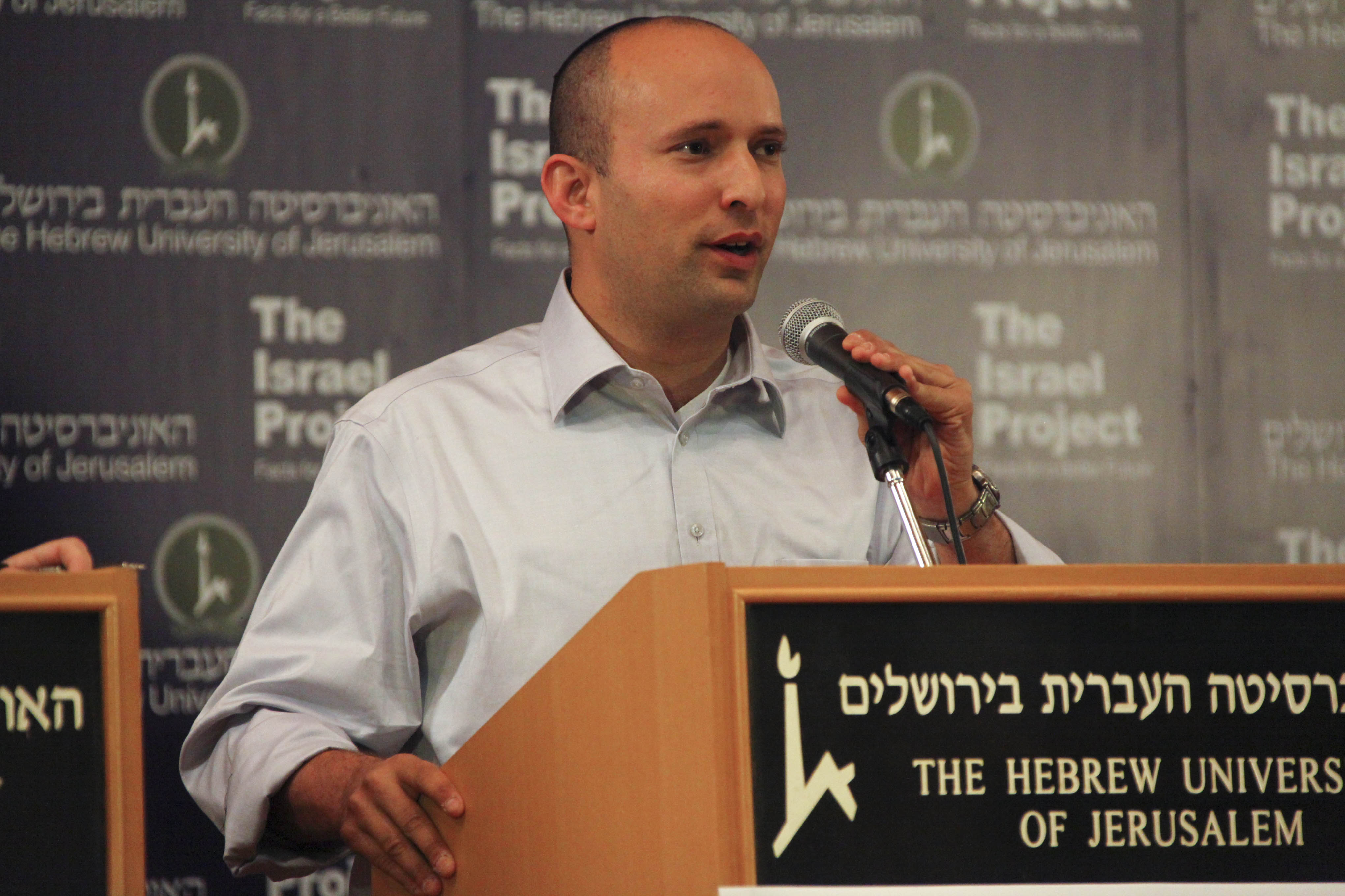 Naftali Bennett at The Israel Project’s pre-election foreign-policy debate. (Mati Milstein/The Israel Project)